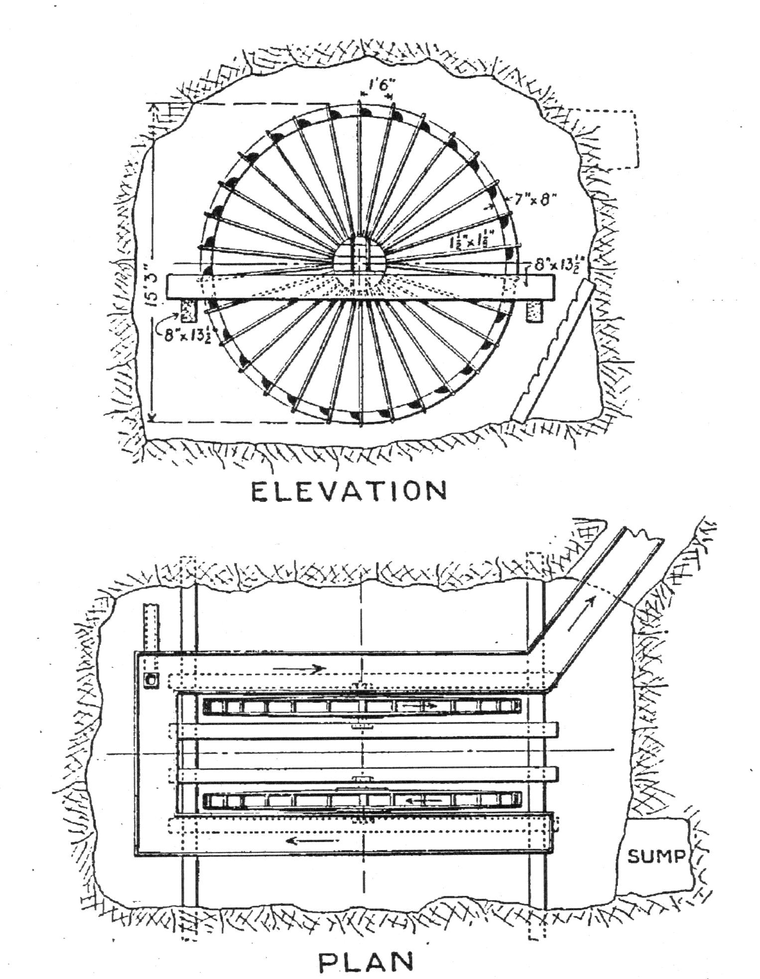 Drainage wheel from Rio Tinto mines, in the Sierra Morena mountains of Andalusia, Spain. Ancient Roman mine's drainage technology.